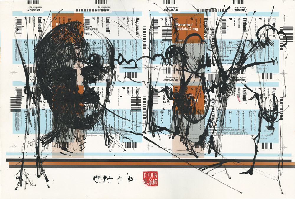 Original Title: Ekspresija sadašnjice Date: 2013; Karlovac, Croatia Style: Figurative Expressionism, Sumi-e (Suiboku-ga) Genre: portrait, symbolic painting Media: ink, cardboard Dimensions: 23 x 50 cm